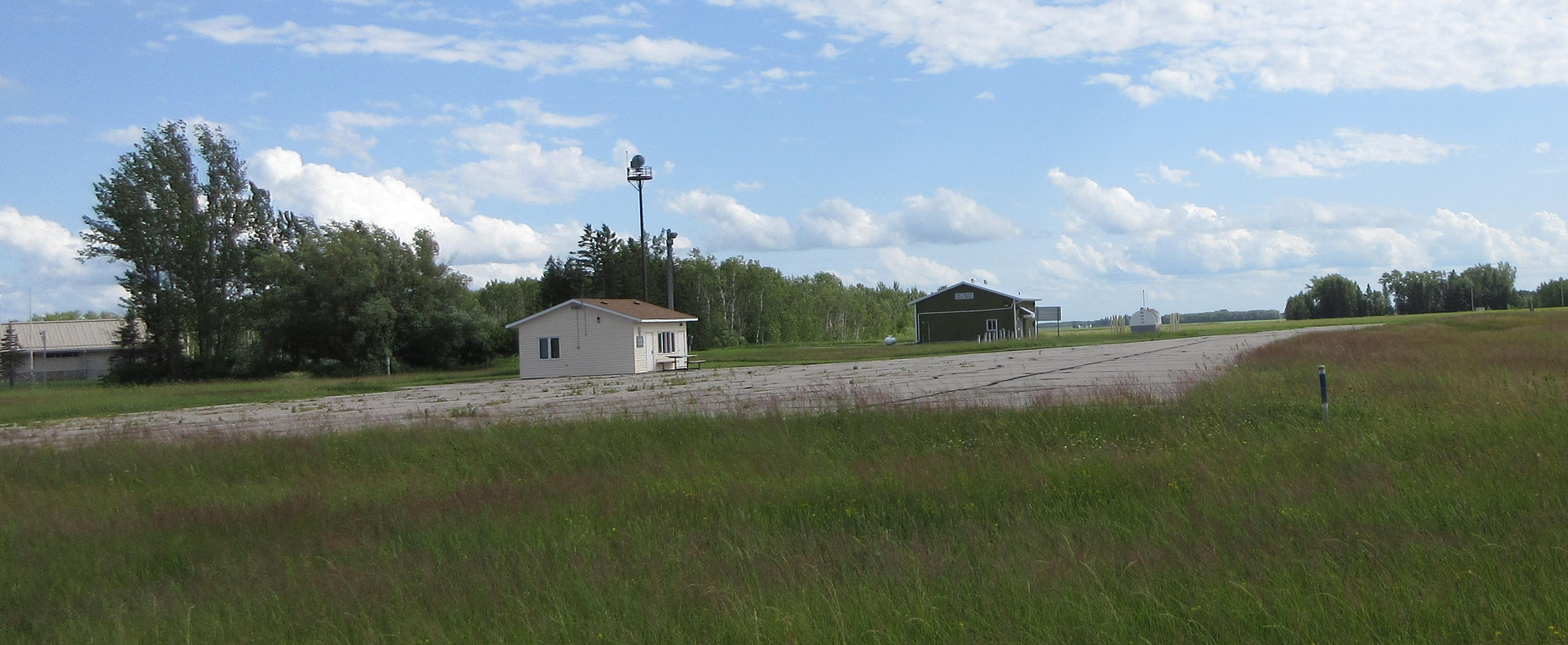 Aircraft arriving at this airport can park on the north ramp in Canada or the south ramp in the United States and obtain customs and border clearance services from the staff at the adjacent US and Canadian border entry facility. This airport has about 3000 general-aviation aircraft operations per year. It is jointly owned by the Minnesota Department of Transport and the Local Government District of Piney.